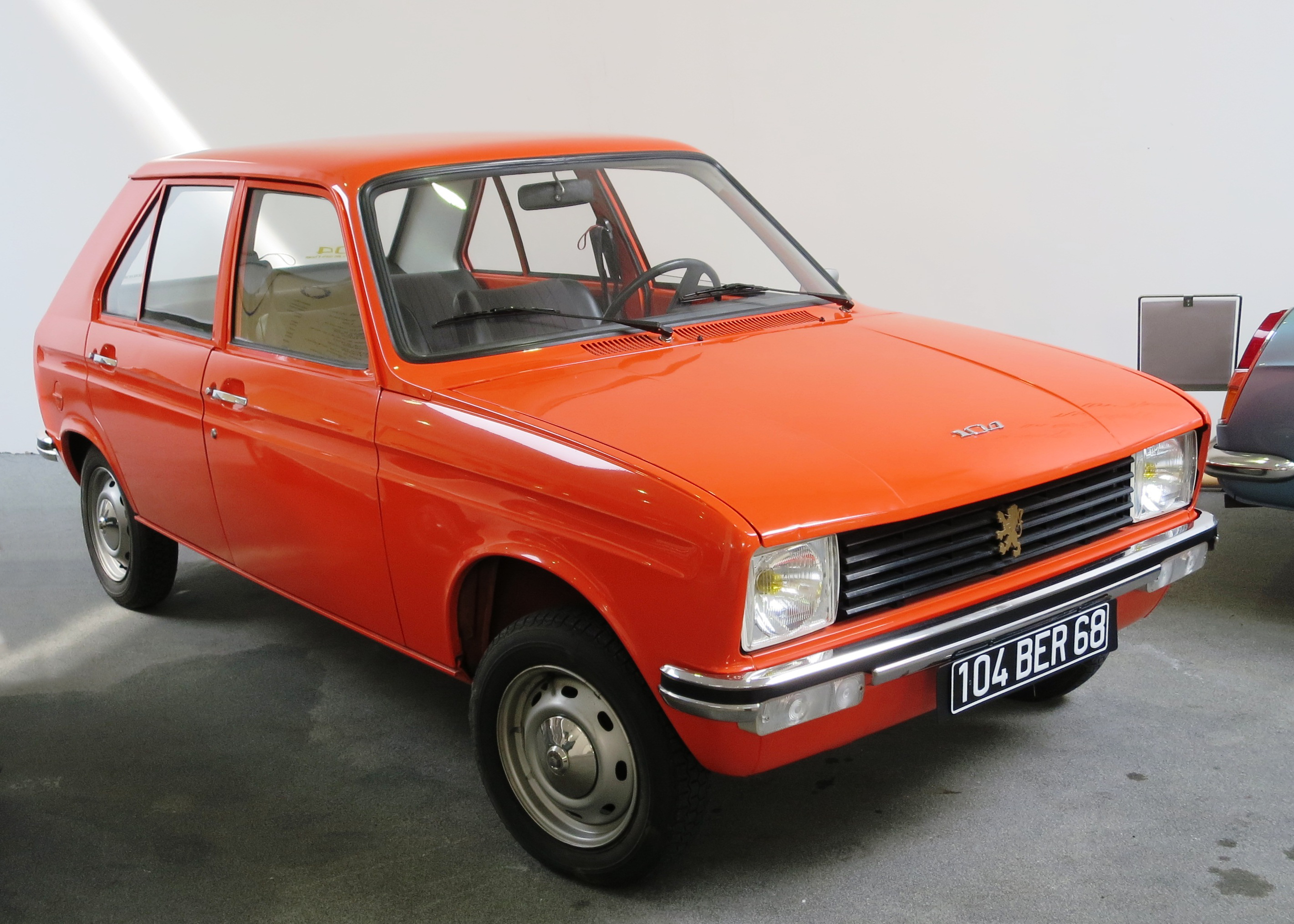 Early Peugeot 104 at the Peugeot Museum in Sochaux